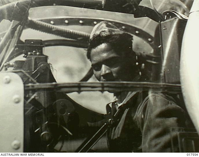 Twenty one year old former Indian film star Sabu Dastagir of North Hollywood, California, USA, a Corporal in the US Air Force, in his wartime role is seated over the nose guns of a US Consolidated B24 Liberator bomber aircraft in which he will sweep over the jungles of New Guinea.